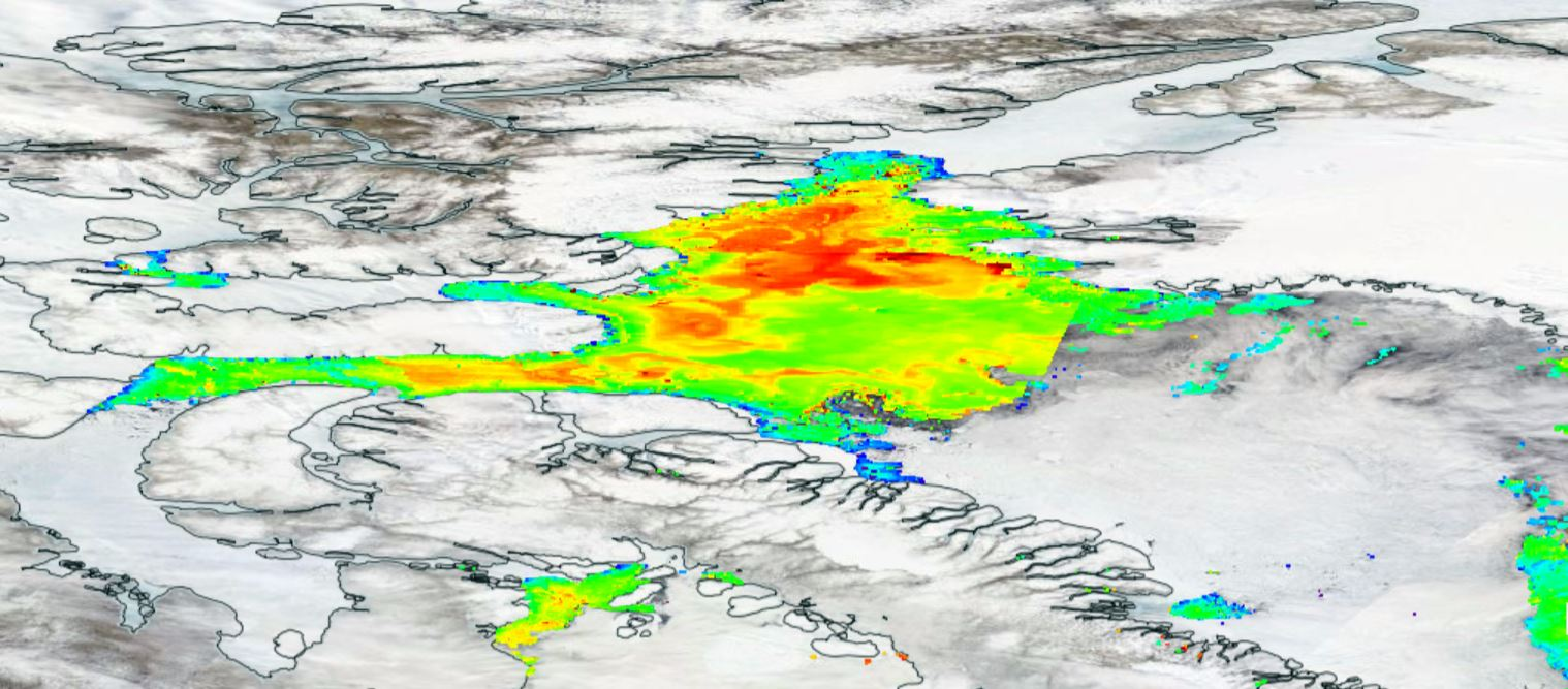 Phytoplankton concentrations in the North Water and Lancaster Sound on June 14, 2016